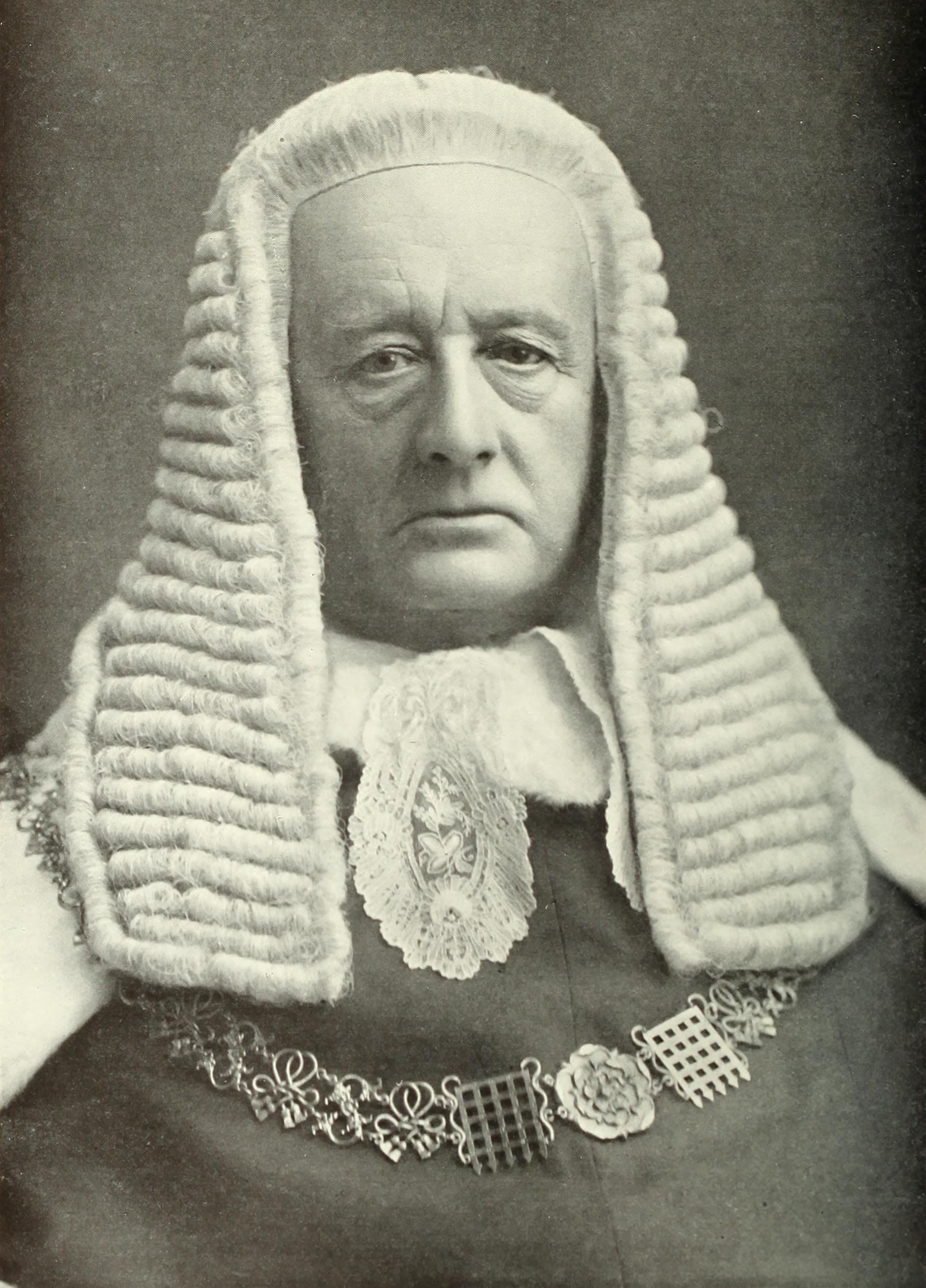 Portrait of Richard Webster, 1st Viscount Alverstone (1842-1915)